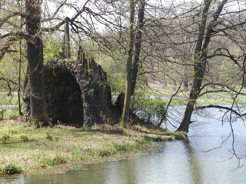 Grotto with organ basalt in the landscape garden Bärwalde, Boxberg, Saxony